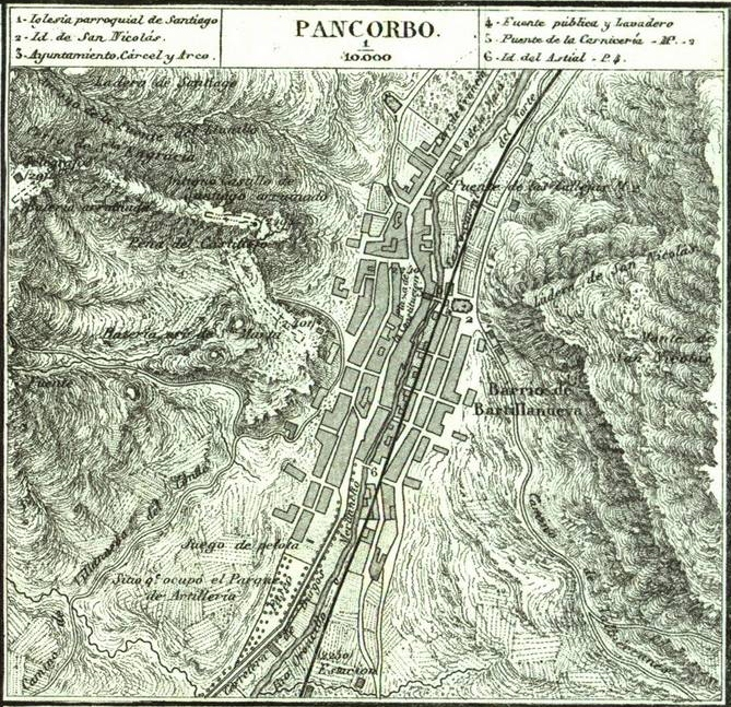 Map of Pancorbo cropped from the 1868 province of Burgos map by Francisco Coello